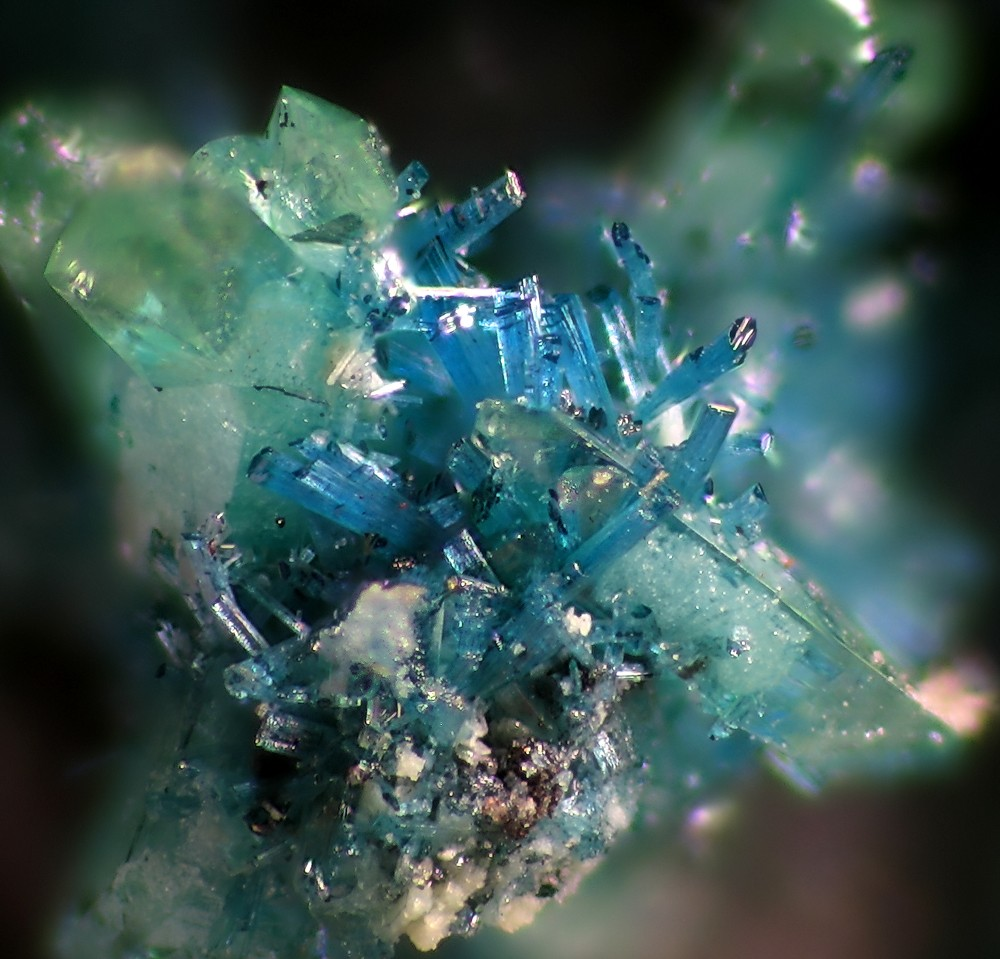 Keyite Locality: Tsumeb Mine (Tsumcorp Mine), Tsumeb, Otjikoto (Oshikoto) Region, Namibia (Locality at ) Blue keyite on greenish adamite. Microprobed. Picture width 2 mm. Collection and photograph Christian Rewitzer